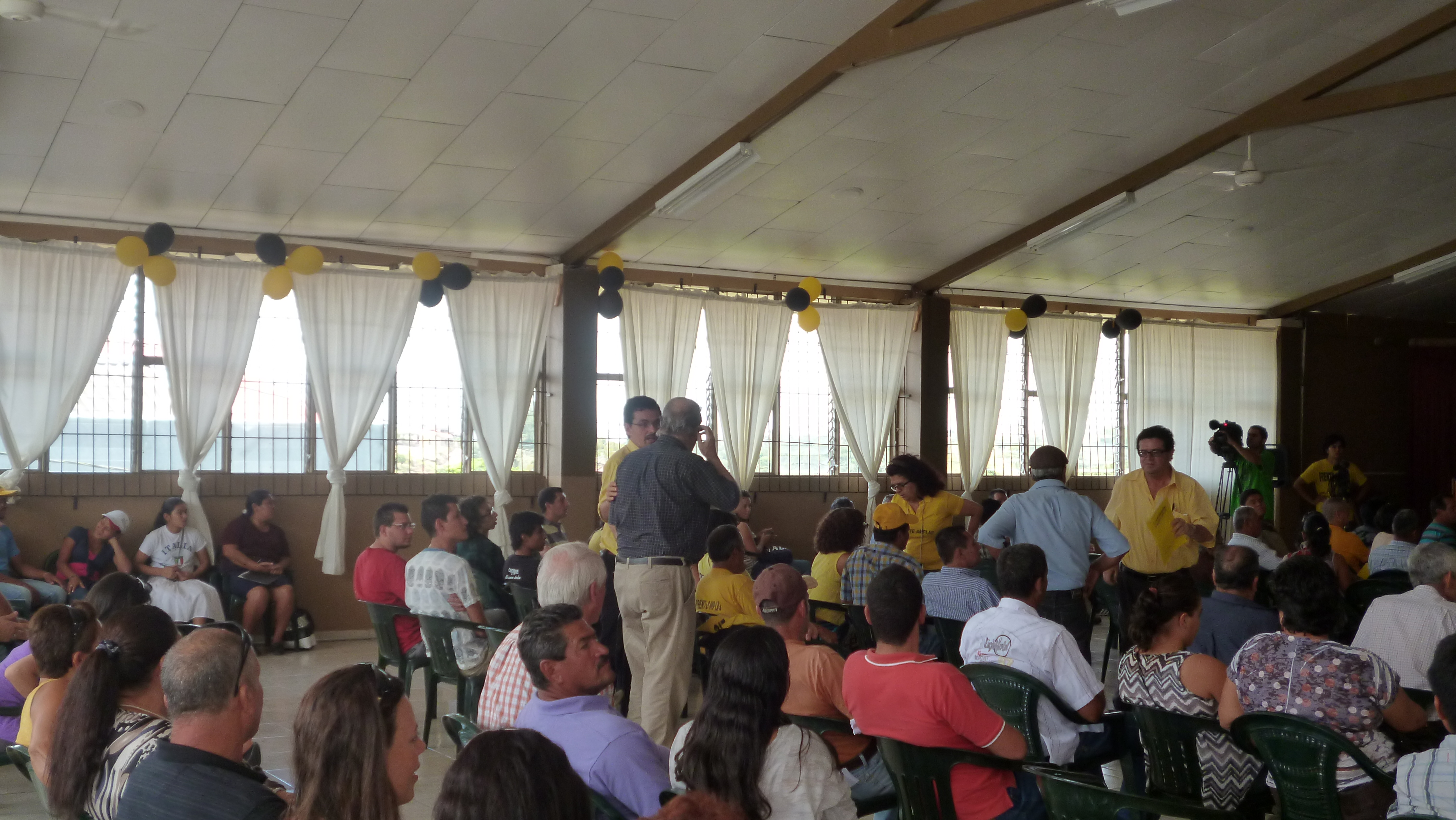 José María Villalta at a Broad Front provincial assembly in Ciudad Quesada, Costa Rica.